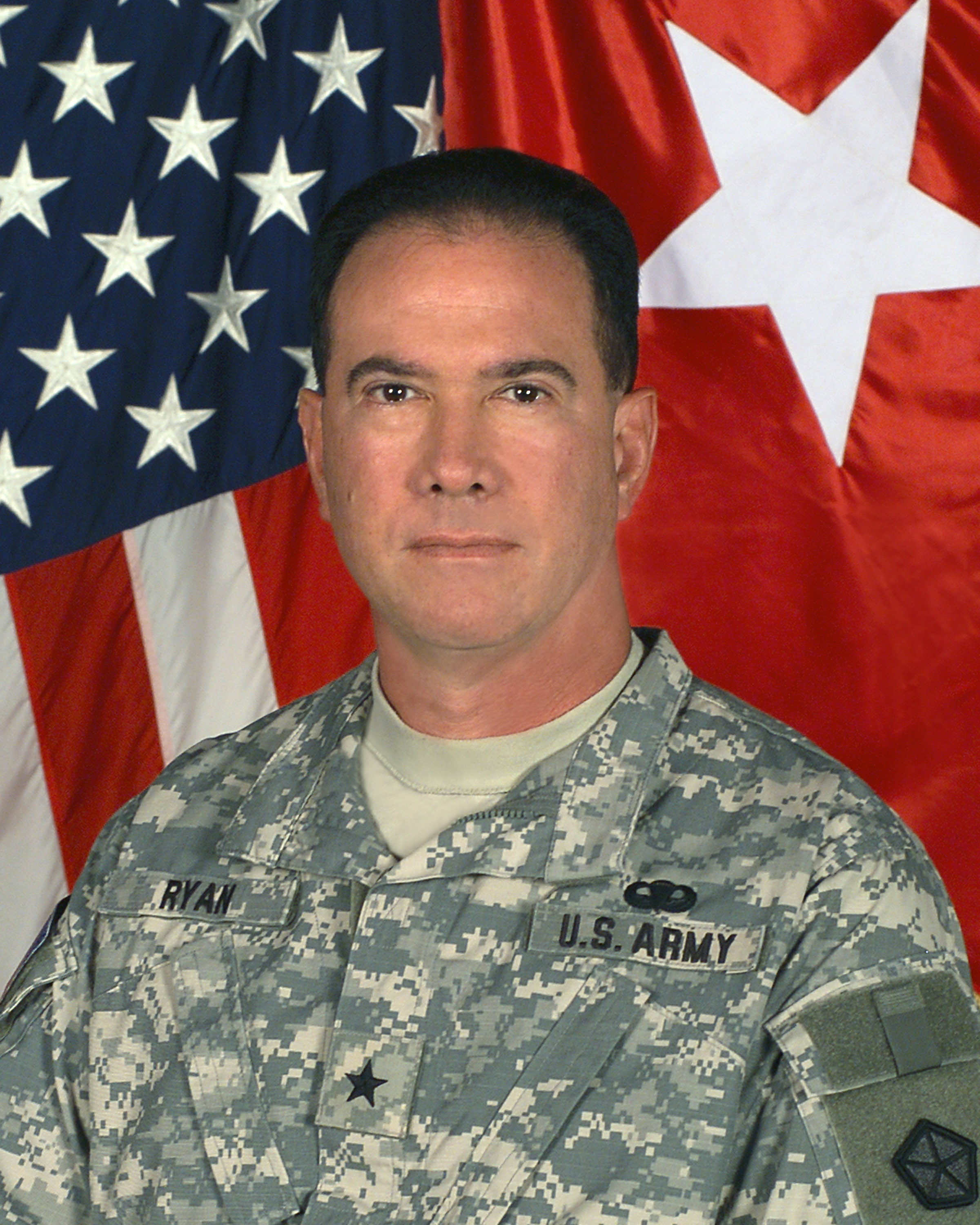 BG Michael Ryan, Commander of V Corps